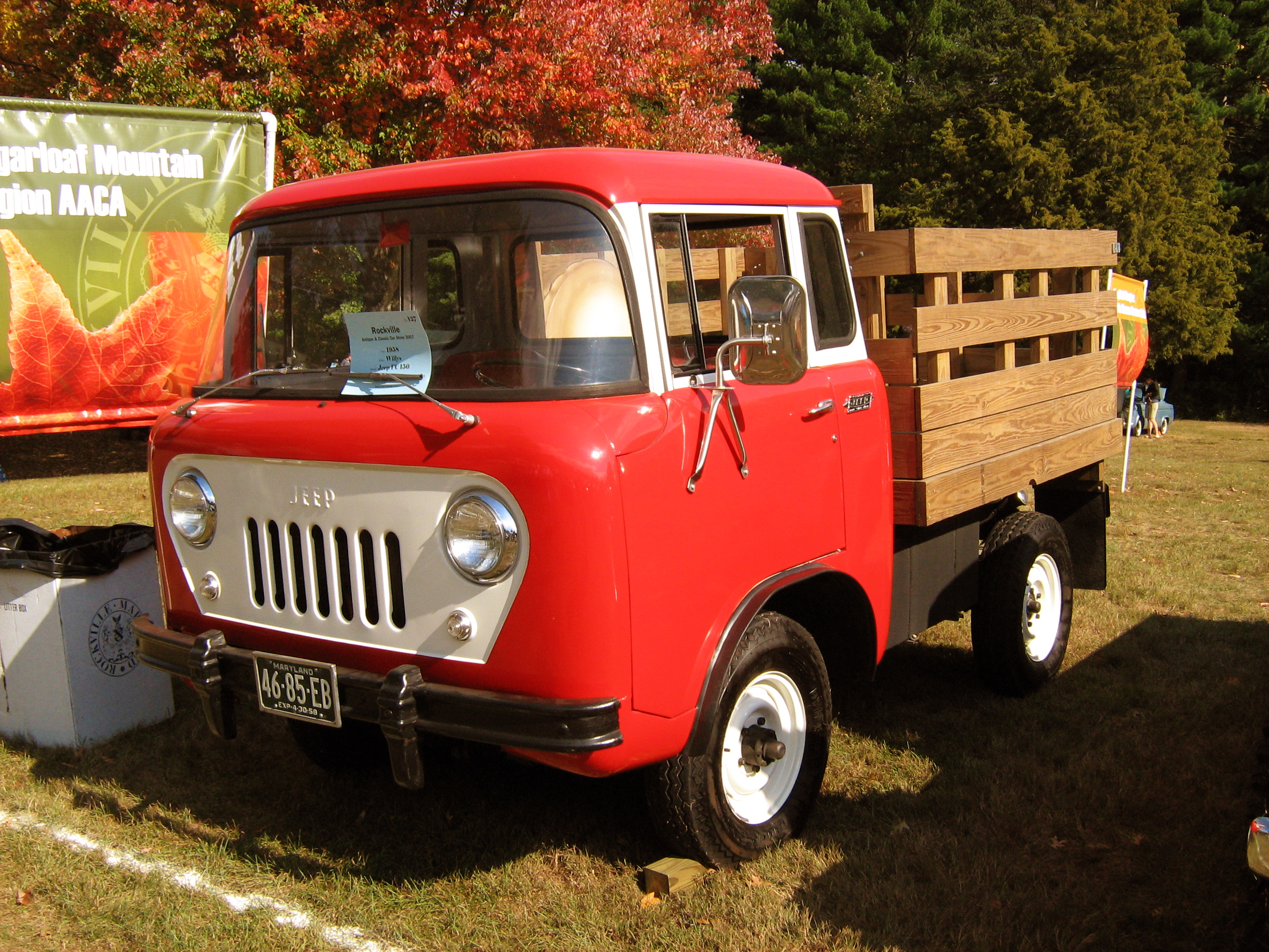 1958 Jeep Forward Control (FC-150) front view - picture taken at the 2007 show in Rockville, Maryland